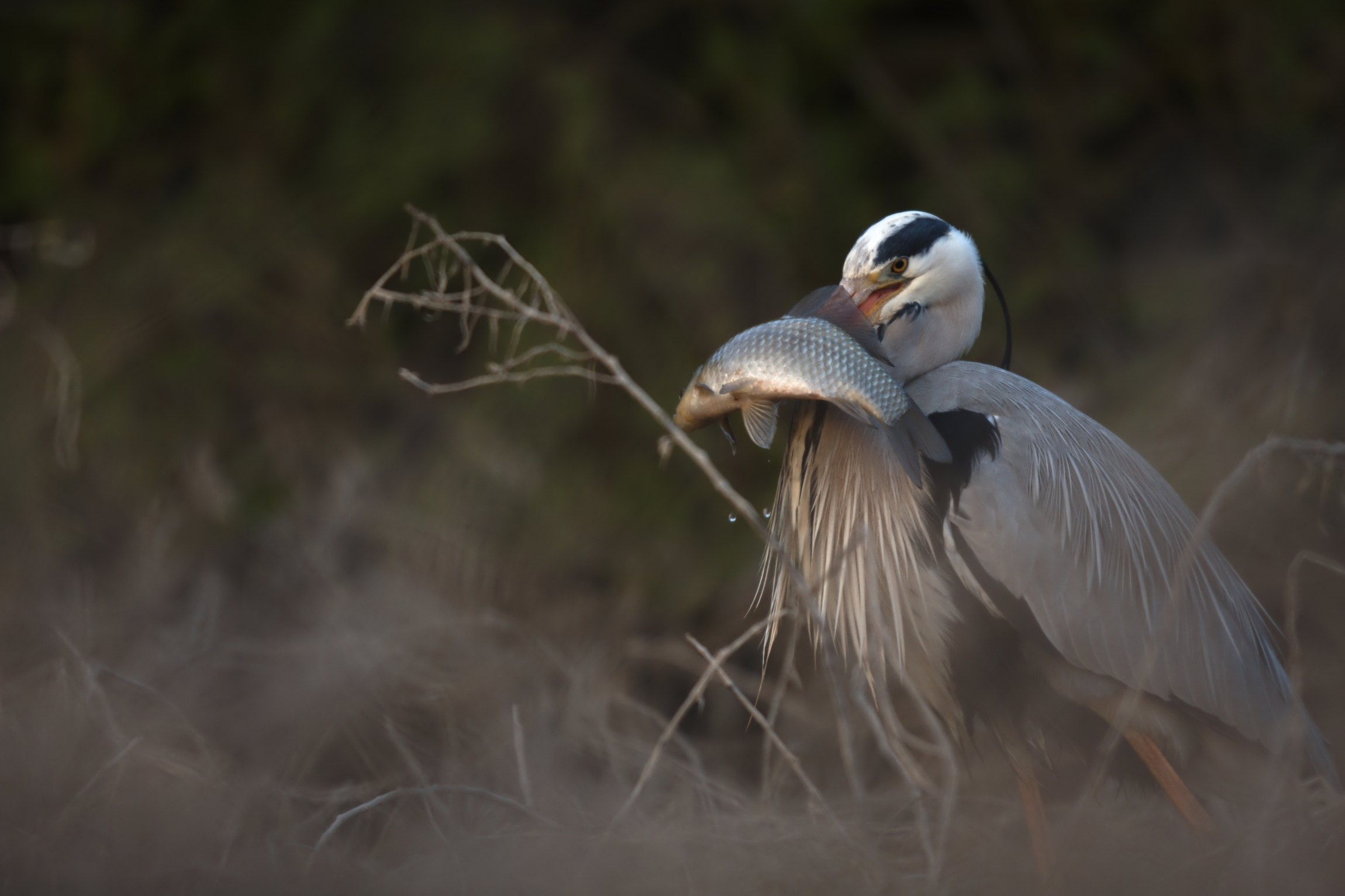 Grey Heron